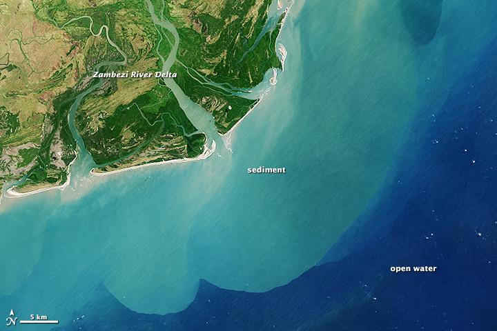 Zambezi River Delta drains a watershed that spans eight countries and nearly 1.6 million square kilometers (600,000 square miles). The Zambezi (also Zambeze) is the fourth largest river in Africa, and the largest east-flowing waterway. From headwaters in Zambia, it rolls across 2,574 kilometers (1,599 miles) of the south-central African plateau before pouring water and sediment into the Indian Ocean through a vast delta in Mozambique. The Operational Land Imager on the Landsat 8 satellite acquired this natural-color image of the Zambezi Delta on August 29, 2013. Sandbars and barrier spits stretch across the mouths of the delta, and suspended sediment extends tens of kilometers out into the sea. The sandy outflow turns the coastal waters to a milky blue-green compared to the deep blue of open water in the Indian Ocean. The Zambezi Delta includes 230 kilometers of coastline fronting 18,000 square kilometers (7,00 square miles) of swamps, floodplains, and even savannahs (inland). The area has long been prized by subsistence fishermen and farmers, who find fertile ground for crops like sugar and fertile waters for prawns and fish. Buffaloes, cranes, and other wildlife also have found a haven in this internationally recognized wetland.